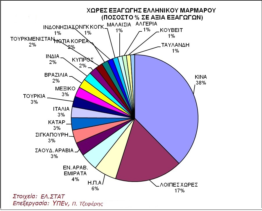 Export countries of Greek marbles for 2014. Percentage distribution of Greek marble exports per geographical area (in value).